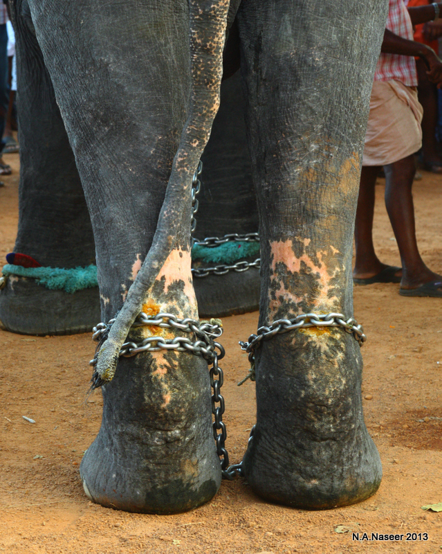 Captive Elephants of Kerala, Cruelty against elephants, Aanapremam, Thrissur Pooram, Festivals of Kerala, Elephants in captivity, Temples of Kerala